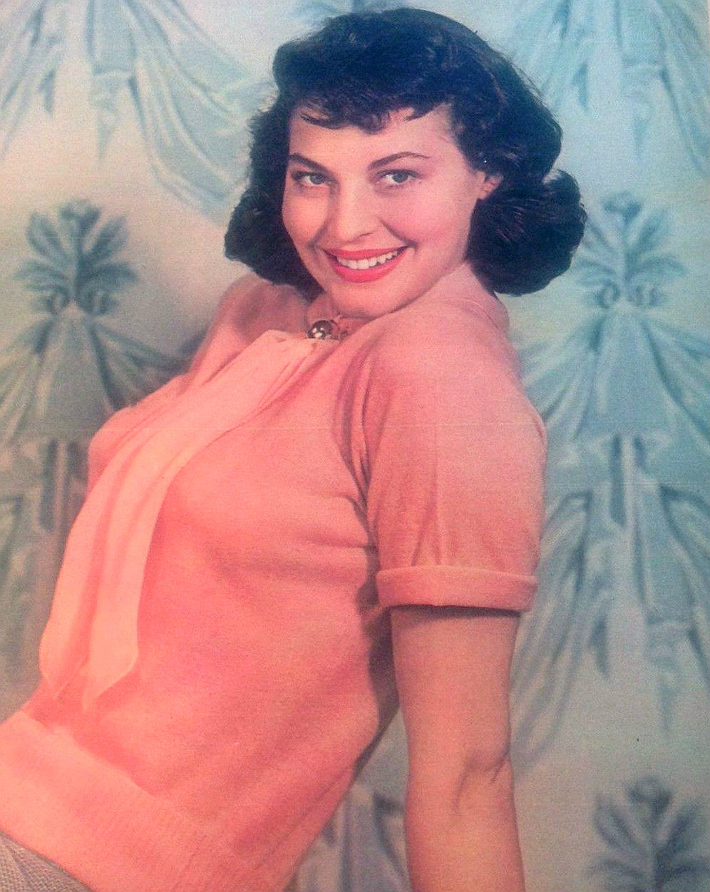 Photo of Ava Gardner from The New York Sunday News.